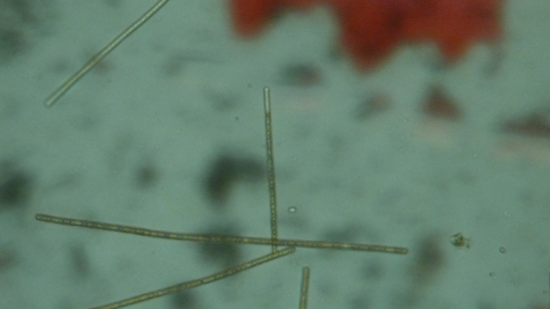 image of the Planktothrix rubescens taken under an inverted microscope with 40 x magnification